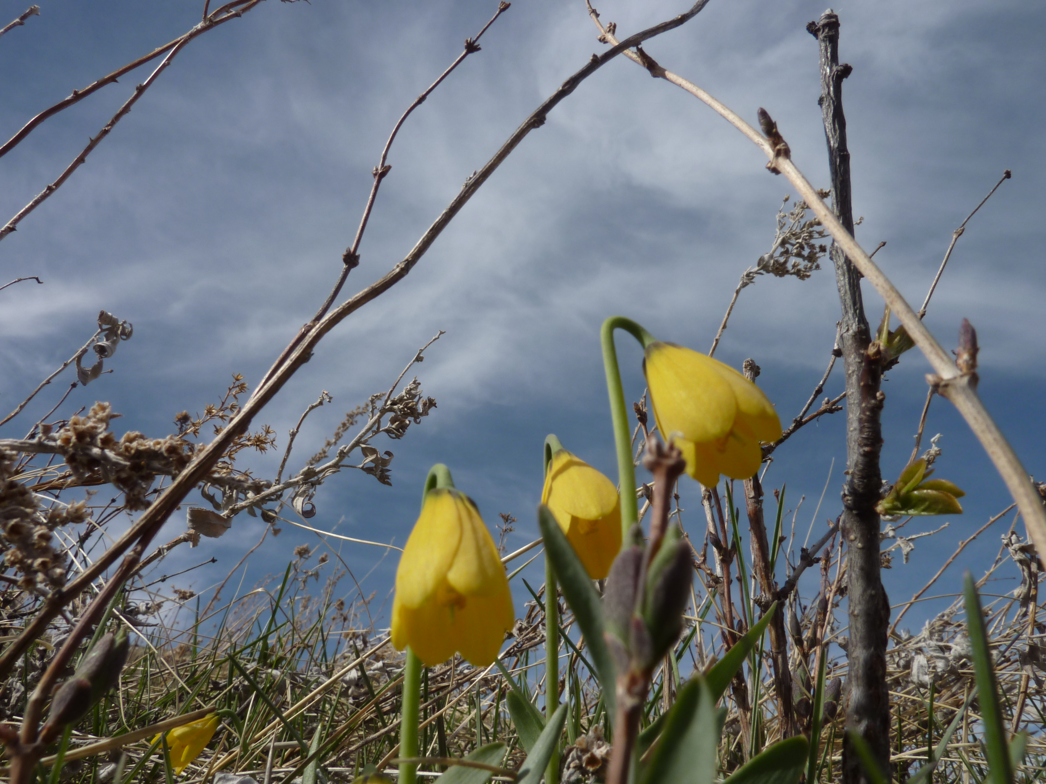 Fritillaria pudica - Yellow Bell; Yellow Fritillary